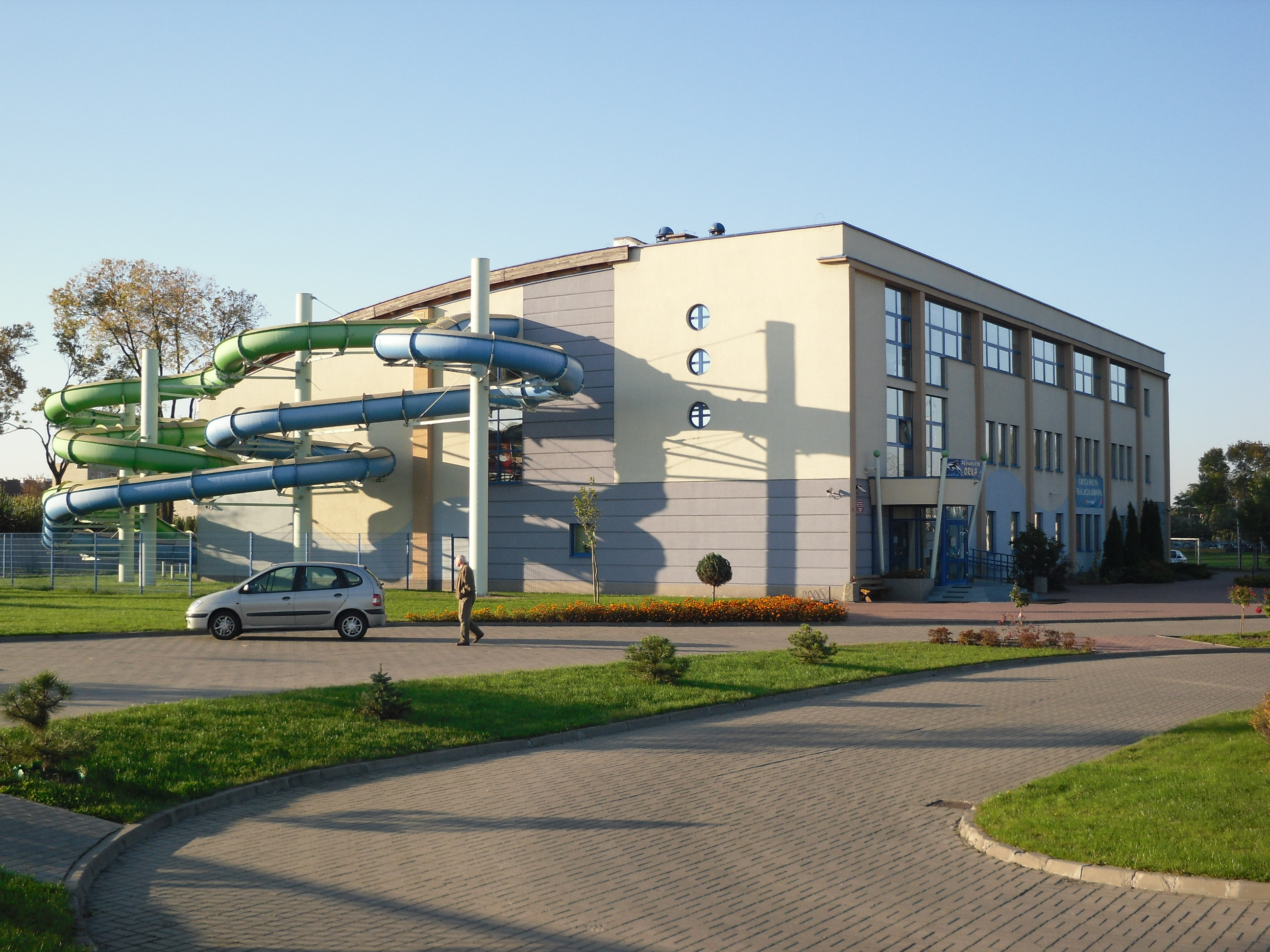 Sochaczew - swimming pool